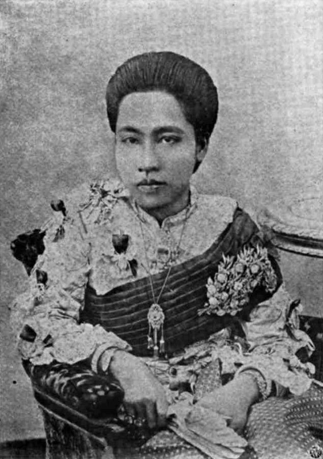 HRH Princess Srivilailaksana, the Princess of Suphanburi, daughter of King Chulalongkorn (Rama V the Great) of Siam and The Noble Consort (Chao Chom Manda) Pae Bunnag (later Lady (Chao Khun Phra) Prayuravongse